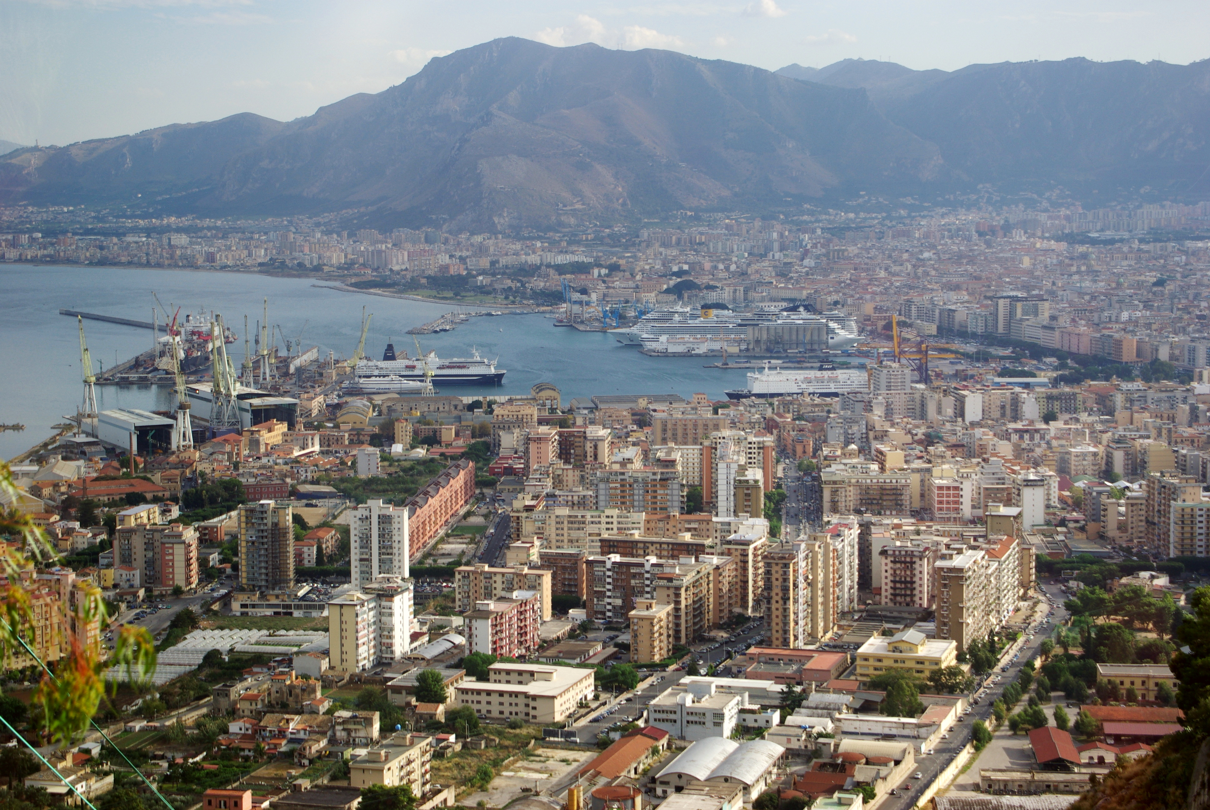 Italy, Sicily, Palermo, view from Monte Pellegrino